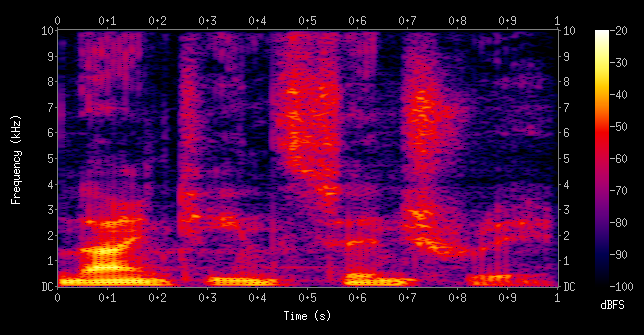 Digitally produced spectrogram of a male voice saying `nineteenth century'